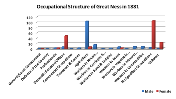 the occupational 'orders' of great ness in 1881